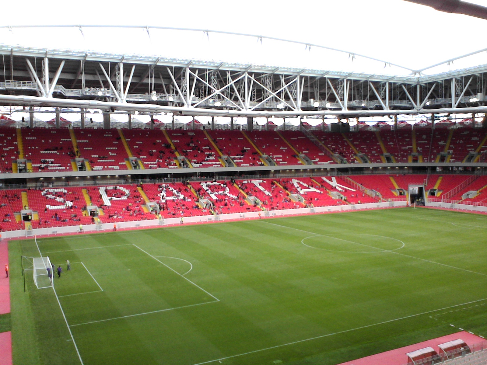 Pitch and stand C view. Otkrytiye Arena (Spartak) in Moscow. August, 30, 2014